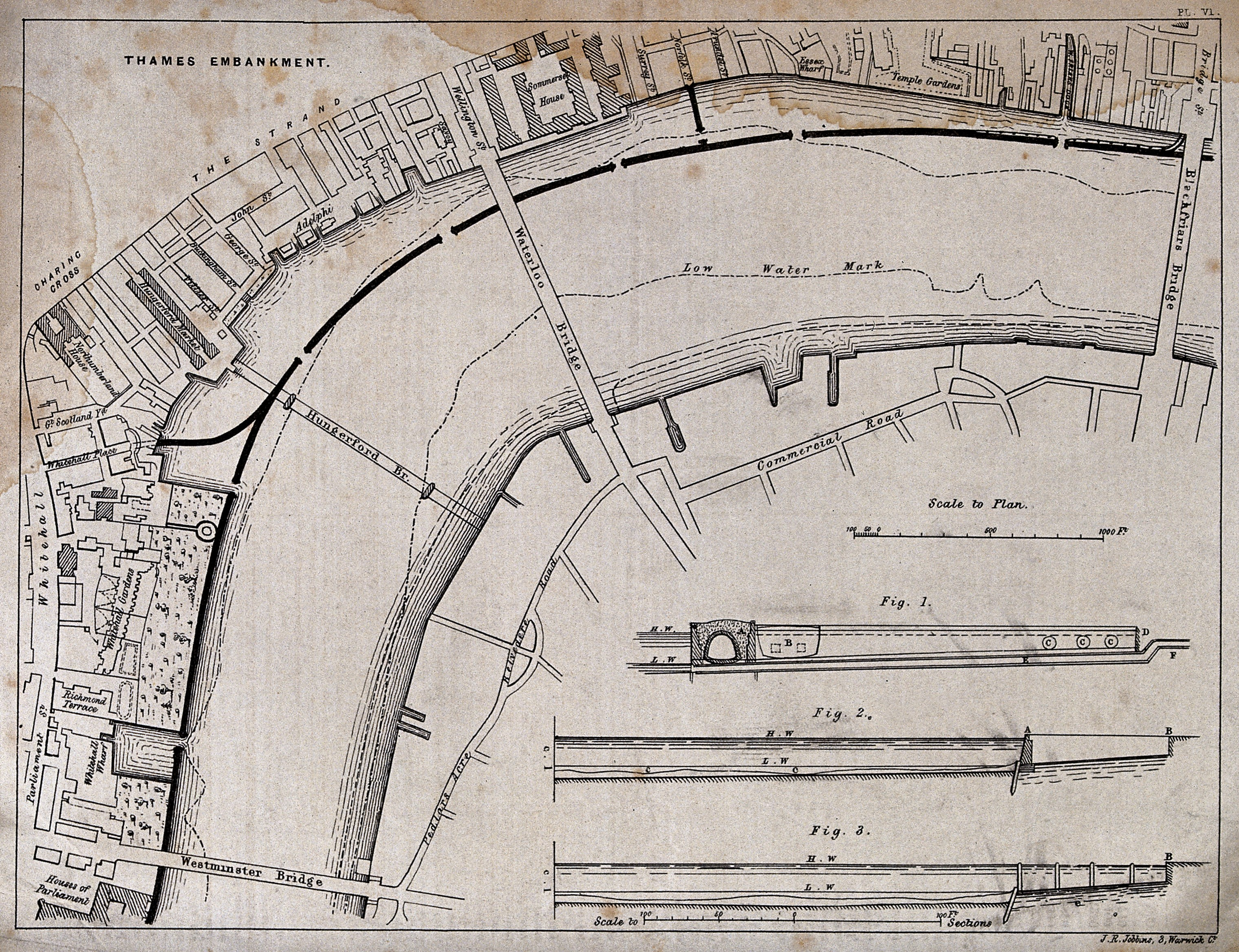 A plan of the Thames Embankment, from Blackfriars Bridge to Westminster Bridge, with sections at three points. Lithograph by J. R. Jobbins after Sir J. Bazalgette. Iconographic Collections Keywords: John Richard Jobbins; Joseph William Bazalgette